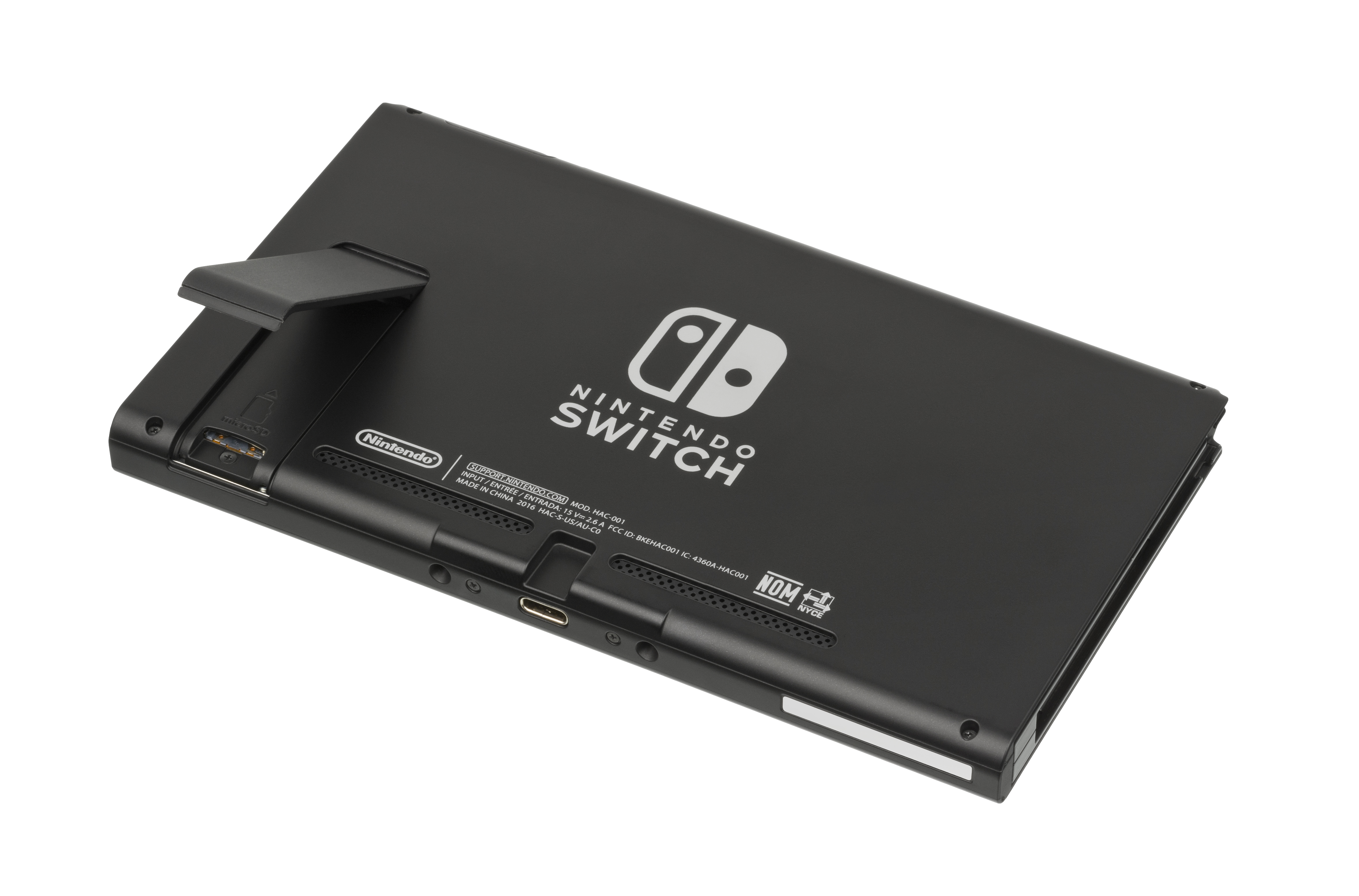 The Nintendo Switch, a hybrid portable/home console released by Nintendo in 2017. This picture shows the main console with the Joy-Con controller unattached.